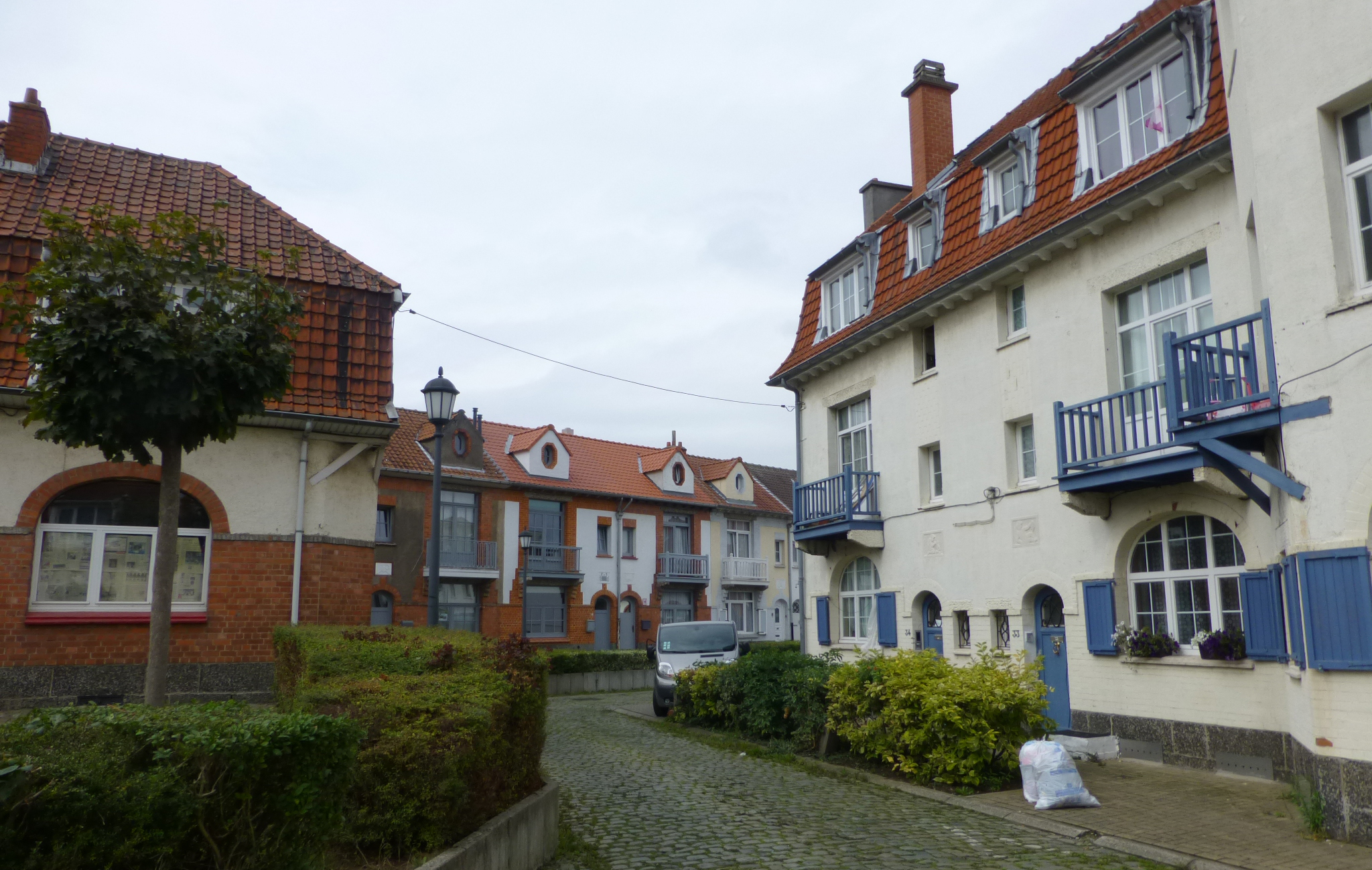 Houses N°s 33-34 in Garden-city Joseph Diongre, Molenbeek-Saint-Jean, Brussels, created in 1922.